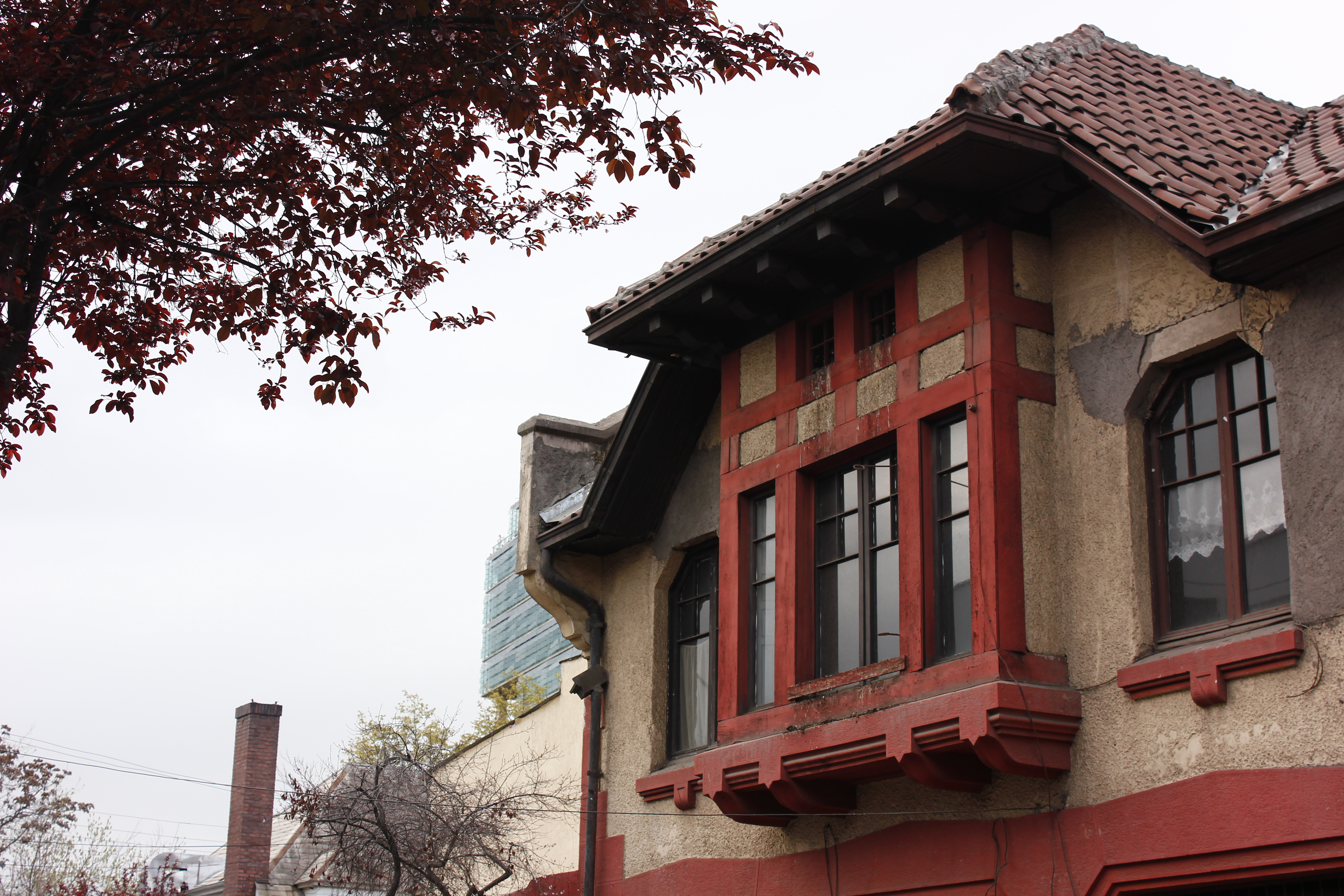 This is a photo of a national monument in Chile: 239